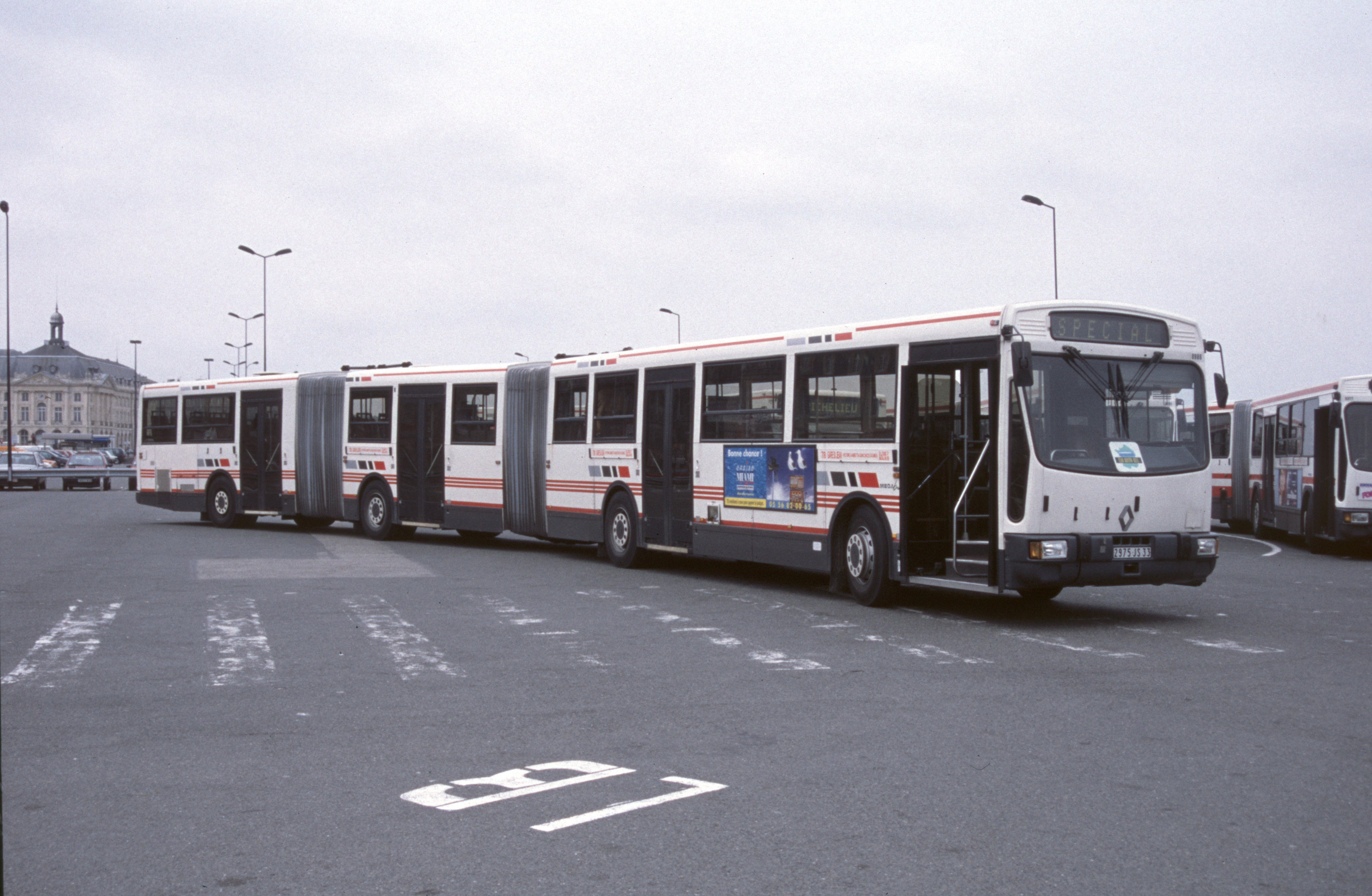 A Renault Mégabus (n°8986 of the CGFTE) parked near to the Saint-Jean train station (Bordeaux, France) on March 13, 1999, on the occasion of a general assembly of the association Car-Histo-Bus.